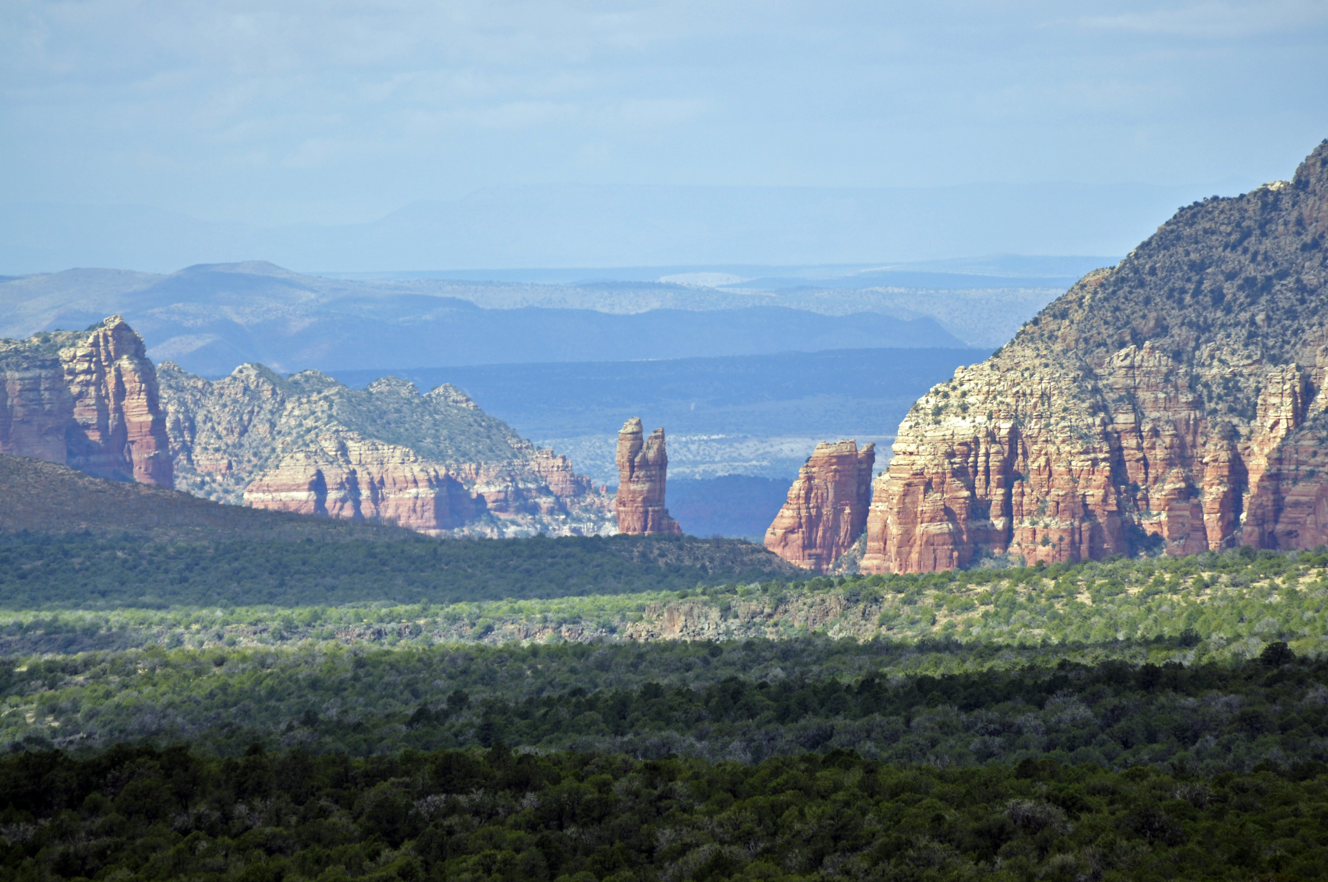 Quick peeks of the Red Rocks of Sedona can be seen from I-17. This view is seen as you are traveling south on I-17 just after passing Munds Park. Taken 10-4-09 by Brady Smith. Credit: USDA Forest Service, Coconino National Forest.